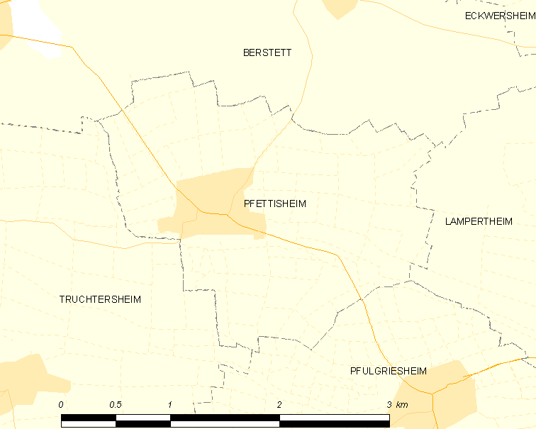 Map of French municipality